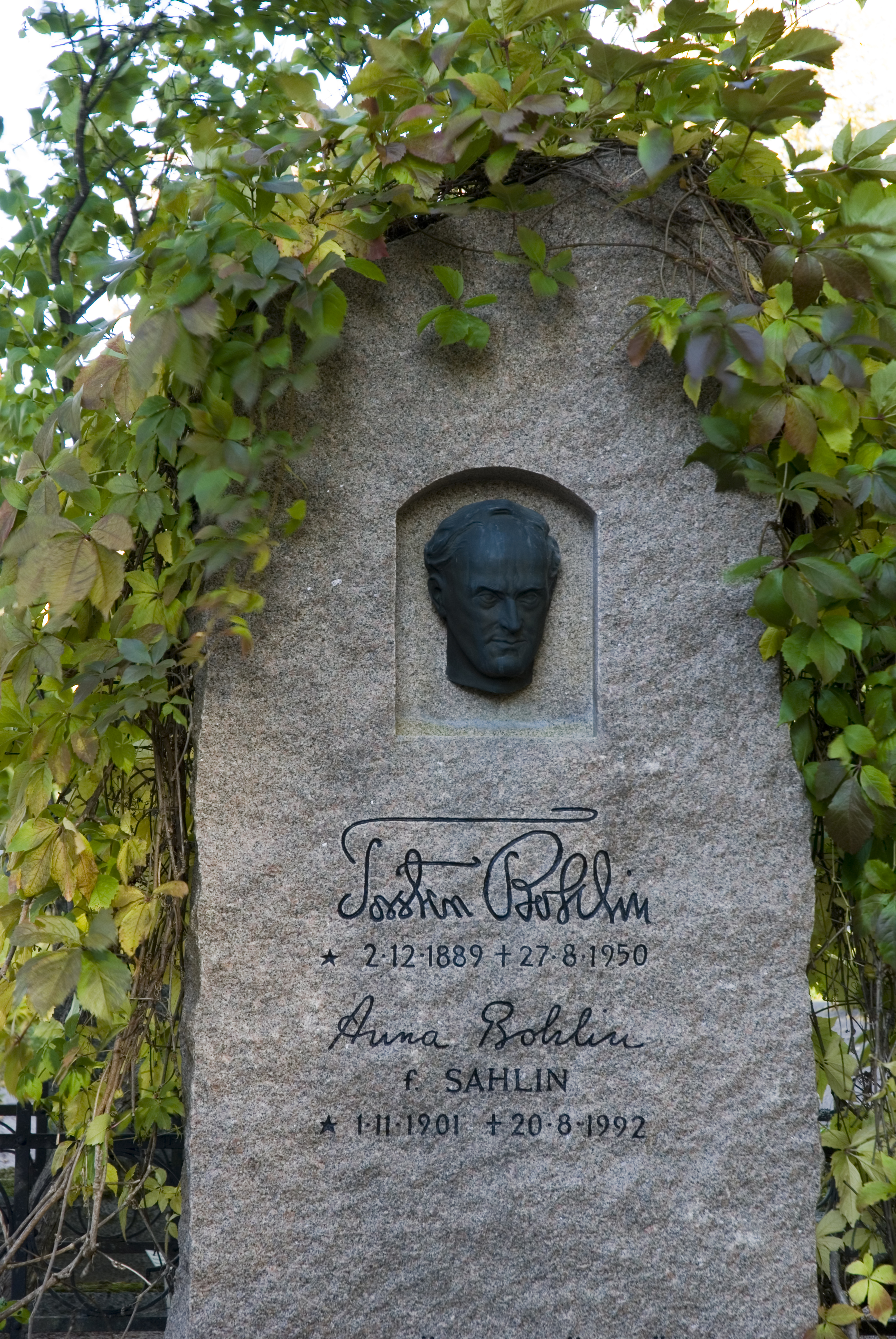 The grave of the Swedish bishop Torsten Bohlin, in Uppsala